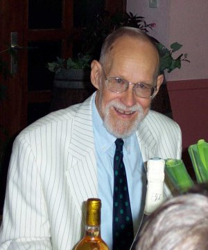 Jon Winroth after receiving the distinction of Chevalier de l'Ordre du Mérite Agricole Date: May 30, 2004 Author: Nathalie Broneer